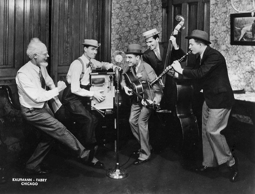 Photo of Uncle Ezra (announcer Pat Barnett who also performed the character on a separate radio show){left} and the Hoosier Hot Shots in a publicity photo for the National Barn Dance when it was carried by NBC Radio. Because the back appears to have been cut off in the original scan, a copyright search was done in artwork for the year 1935. NBC registered an audience analysis of typical evening broadcast programs, but not this photo. Kaufman-Fabry registered some photos in 1936 (the volumes are combined), but not in 1935. There's no evidence of original copyright for the photo. The item has no copyright markings on it as can be seen in the links above.